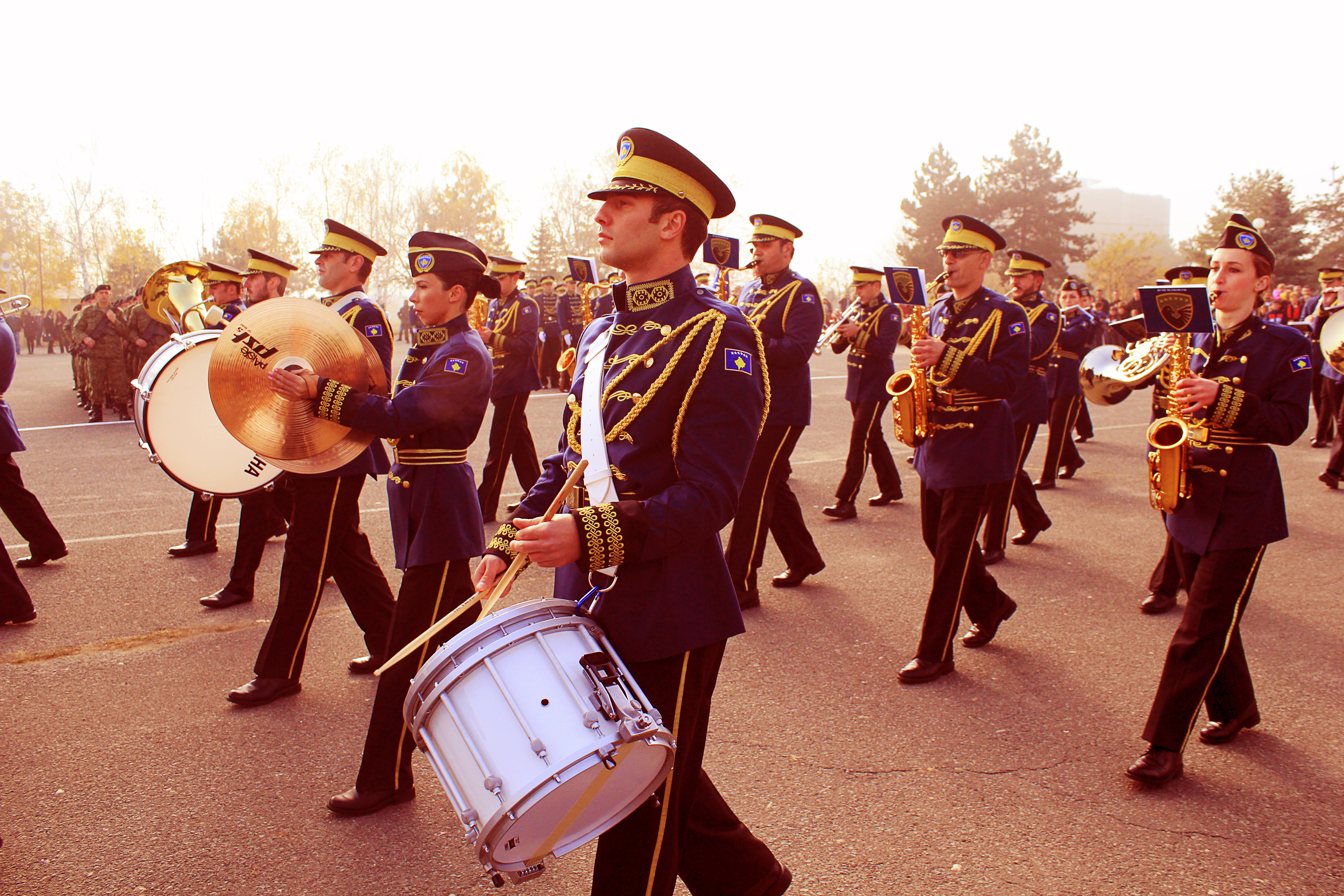 KSF (Orchestra of the Kosovo Security Force)